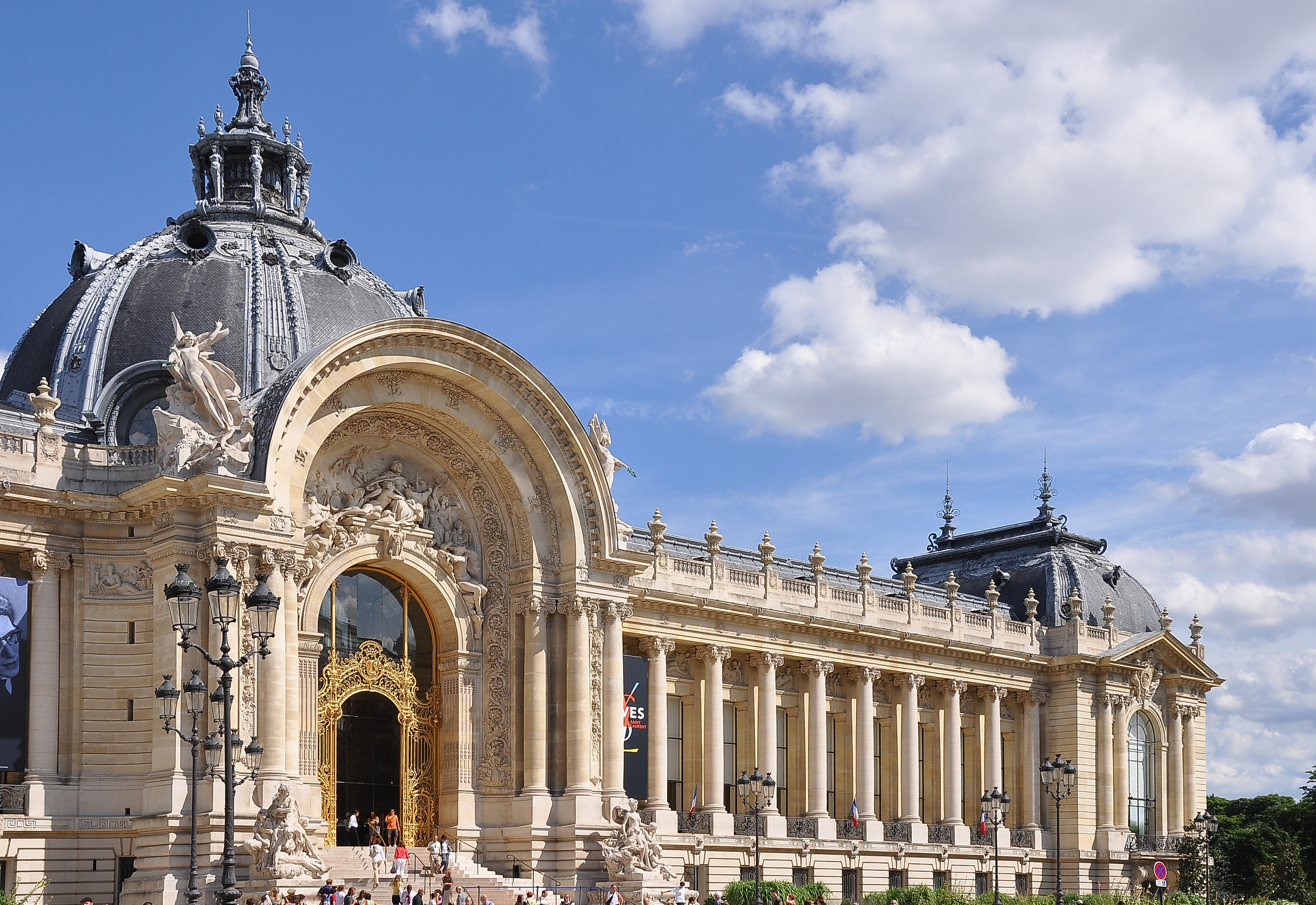 Facade of Petit Palais in Paris, 8th arrondissement, France.